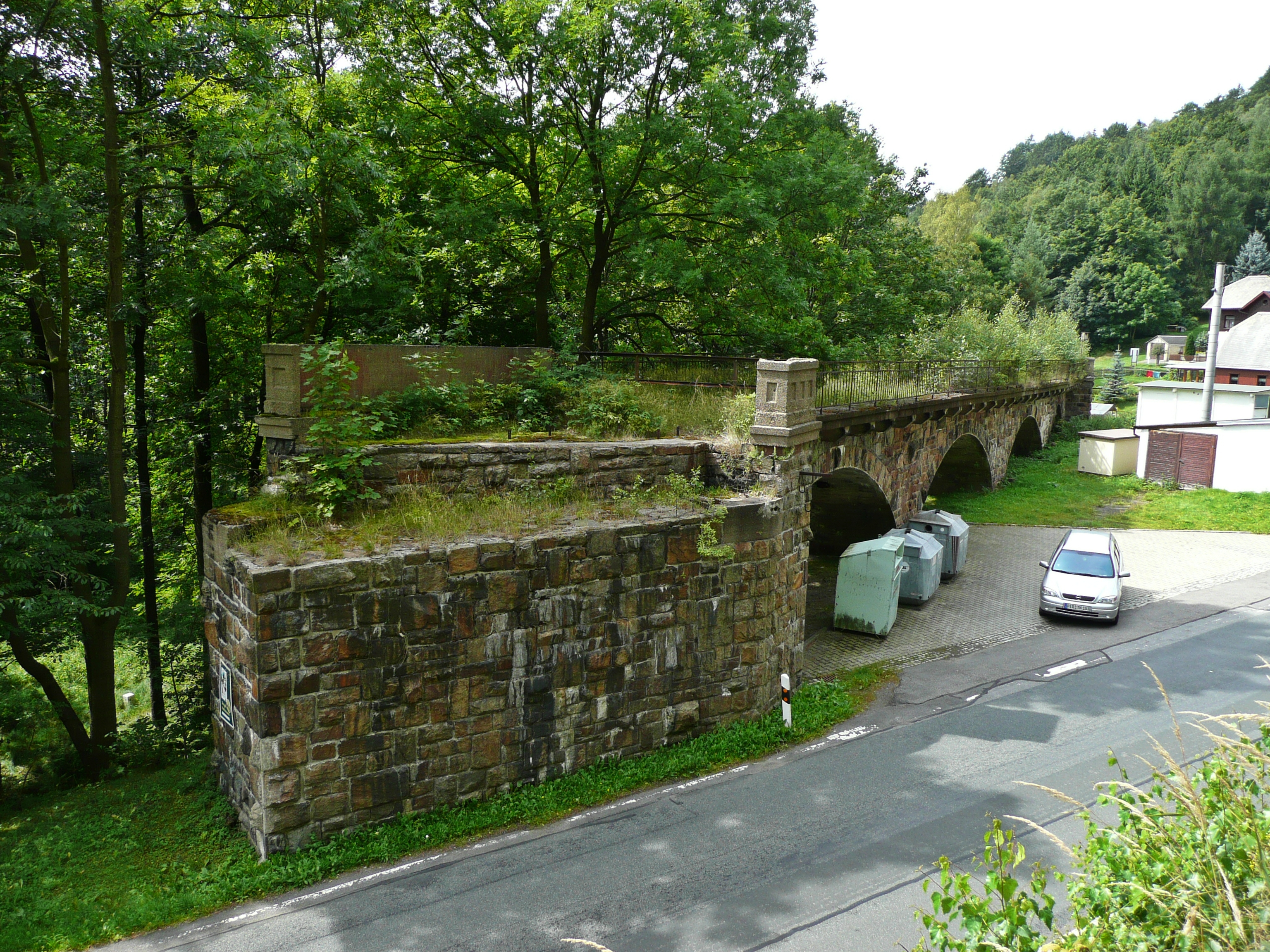 This image shows a bridge of the closed railway from Olbernhau to Deutschneudorf ("Schweinitztalbahn") in the Ore Mountains.